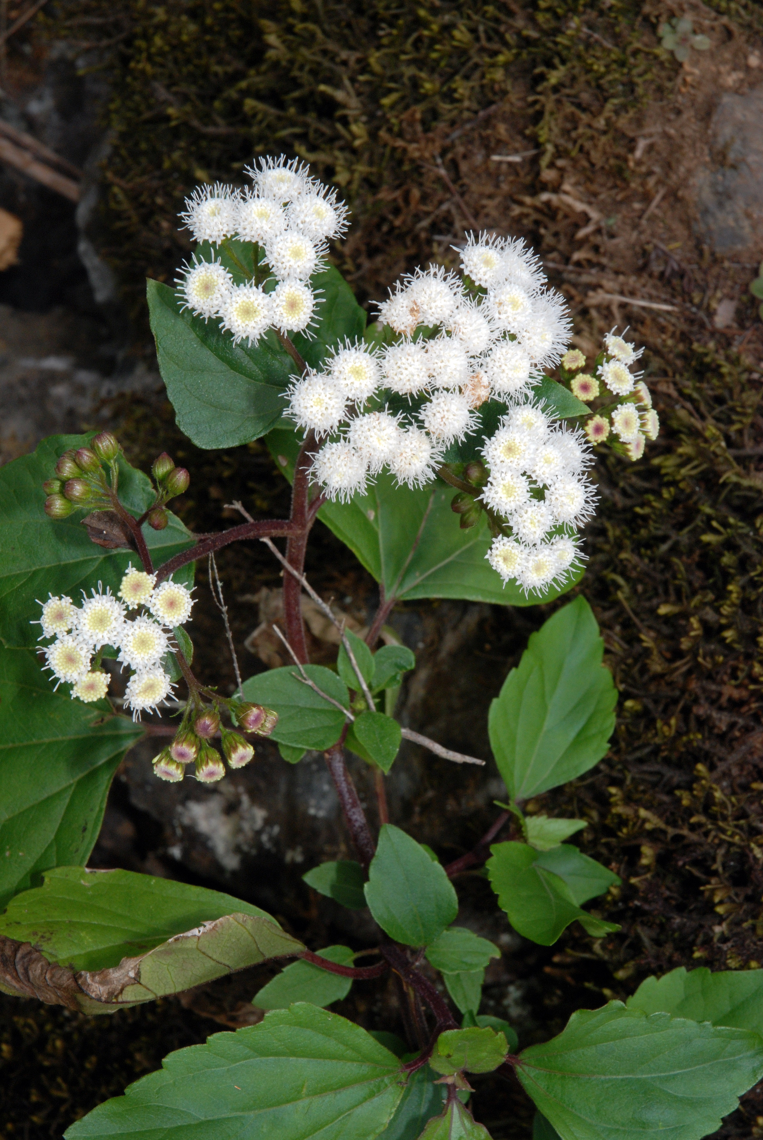 Ageratina adenophora, Cubo de la Galga, La Palma, Spain